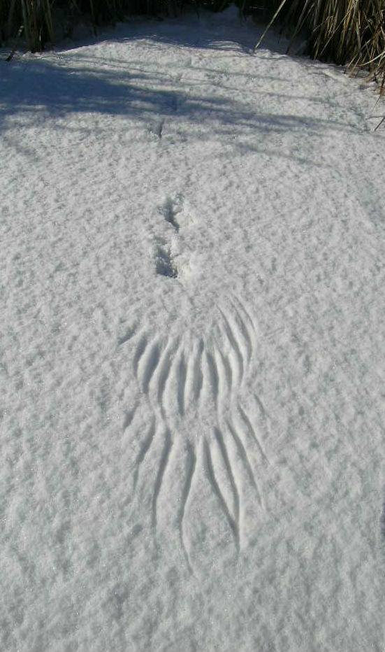 A snow angel left by a pheasant (Phasianidae) in Bowdoin National Wildlife Refuge (Montana). Photo by Paula Gouse, USFWS.